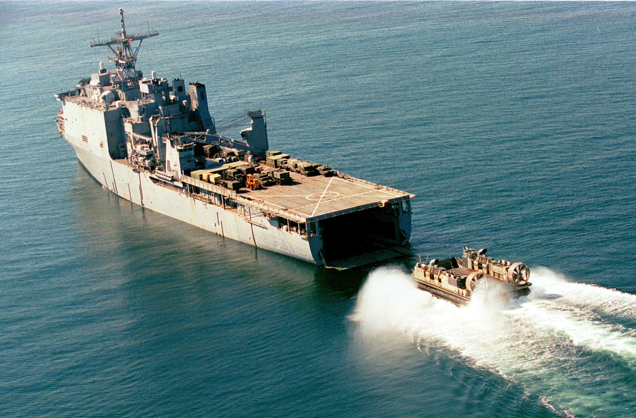 A Landing Craft Air Cushion prepares to enter the well deck of the USS Gunston Hall (LSD 44) as the ship lies at anchor in the Gulf of Izmit off the coast of Turkey on Aug. 29, 1999. The Kearsarge Amphibious Readiness Group and the 26th Marine Expeditionary Unit are in Turkey to aid victims of the recent earthquake as part of Operation Avid Response. Avid Response is the U.S. military contribution to relief efforts following the earthquake that hit Western Turkey in the early morning hours of Aug. 17, 1999. The landing craft, more commonly called an LCAC, is shuttling vehicles and supplies for use by Marines and sailors ashore at Hersek, Turkey.